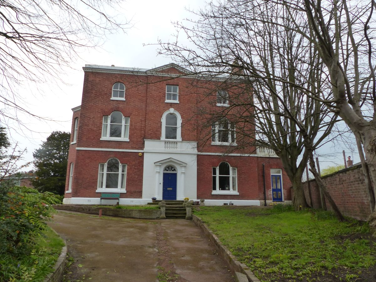 Grade II* listed house in Tarvin, Cheshire.